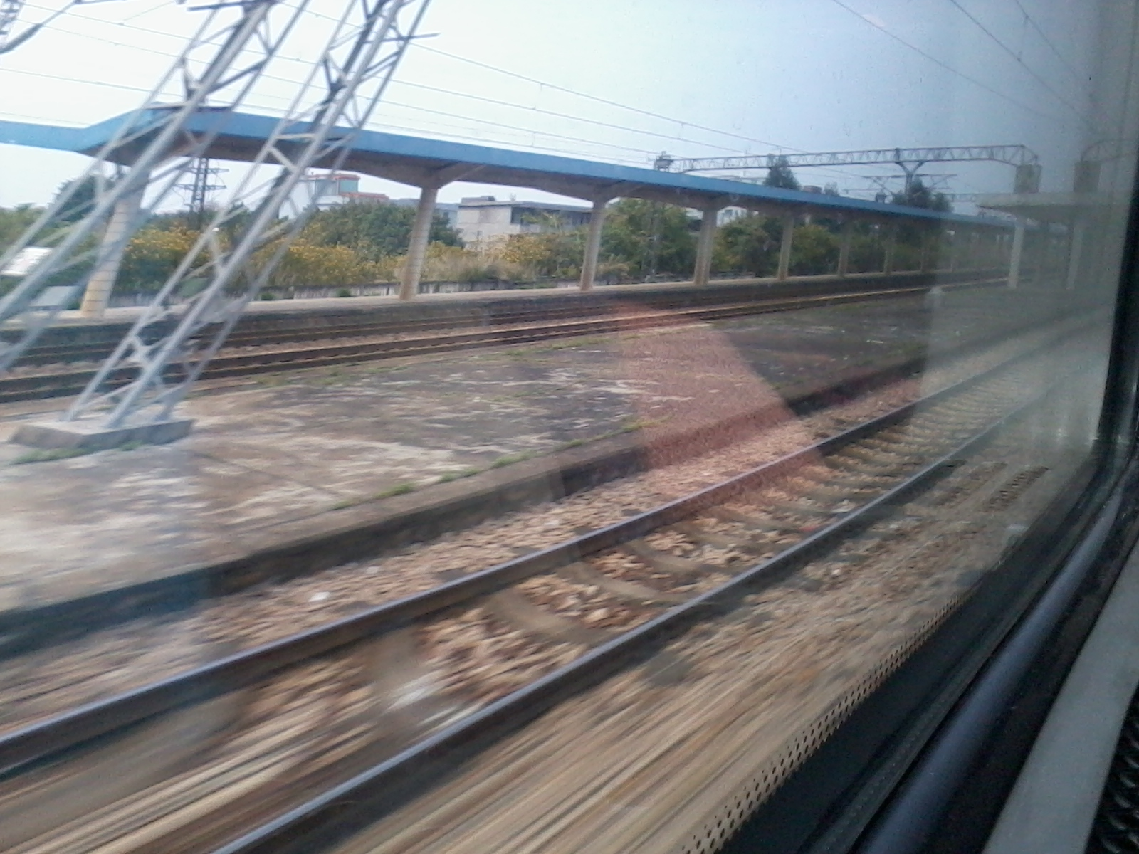 Guangzhou-Shenzhen Railway EMU D7108 train through long-abandoned the Tángtóuxià station was taken in February 2013